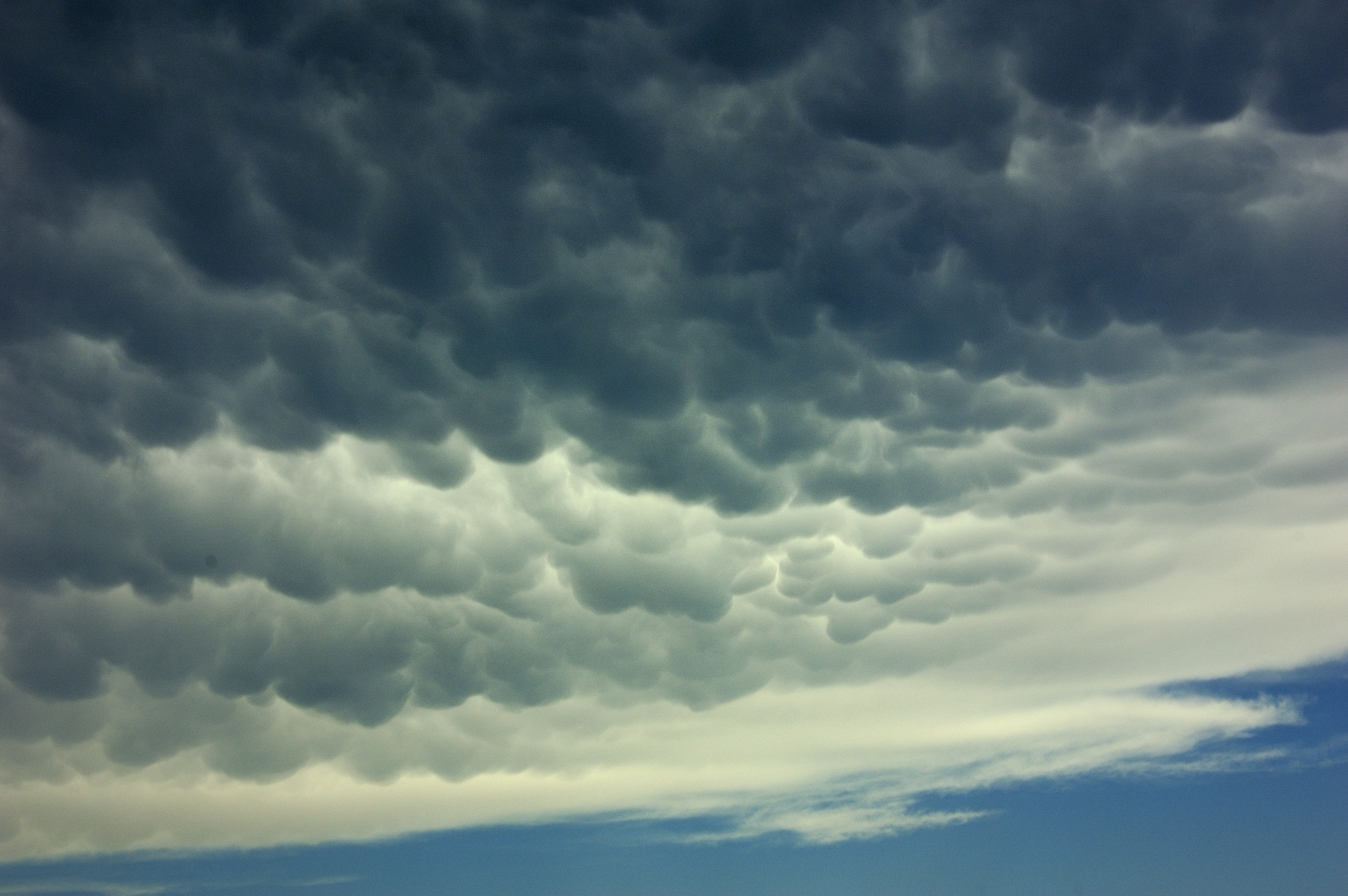 Mammatus clouds, Hohenau an der March